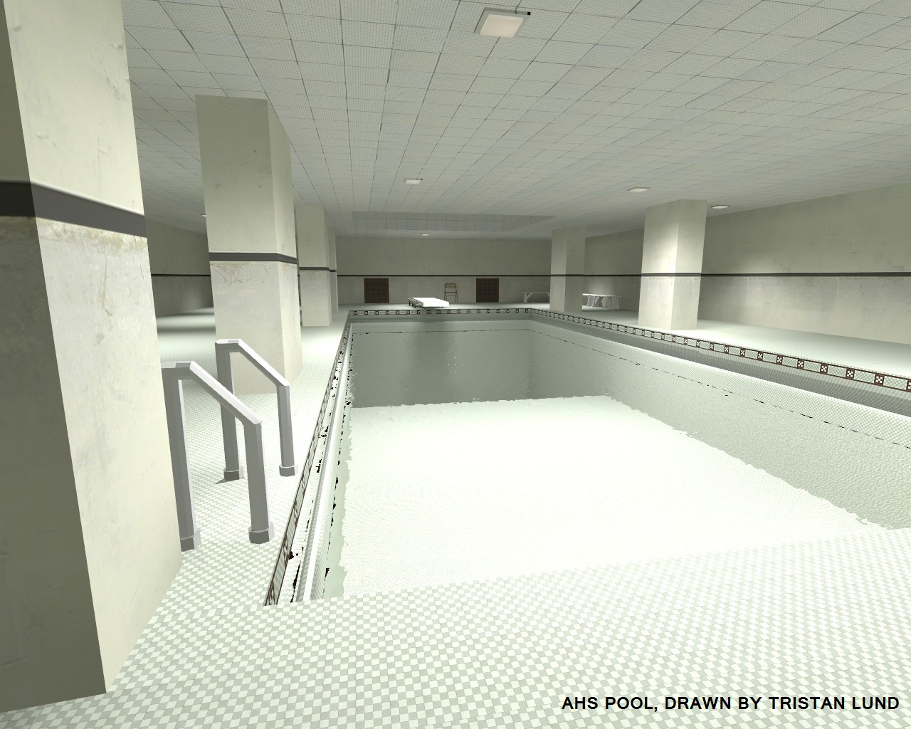 A 3d drawing of what the pool used to look like before it was filled in to make class rooms after Ellis burned down.